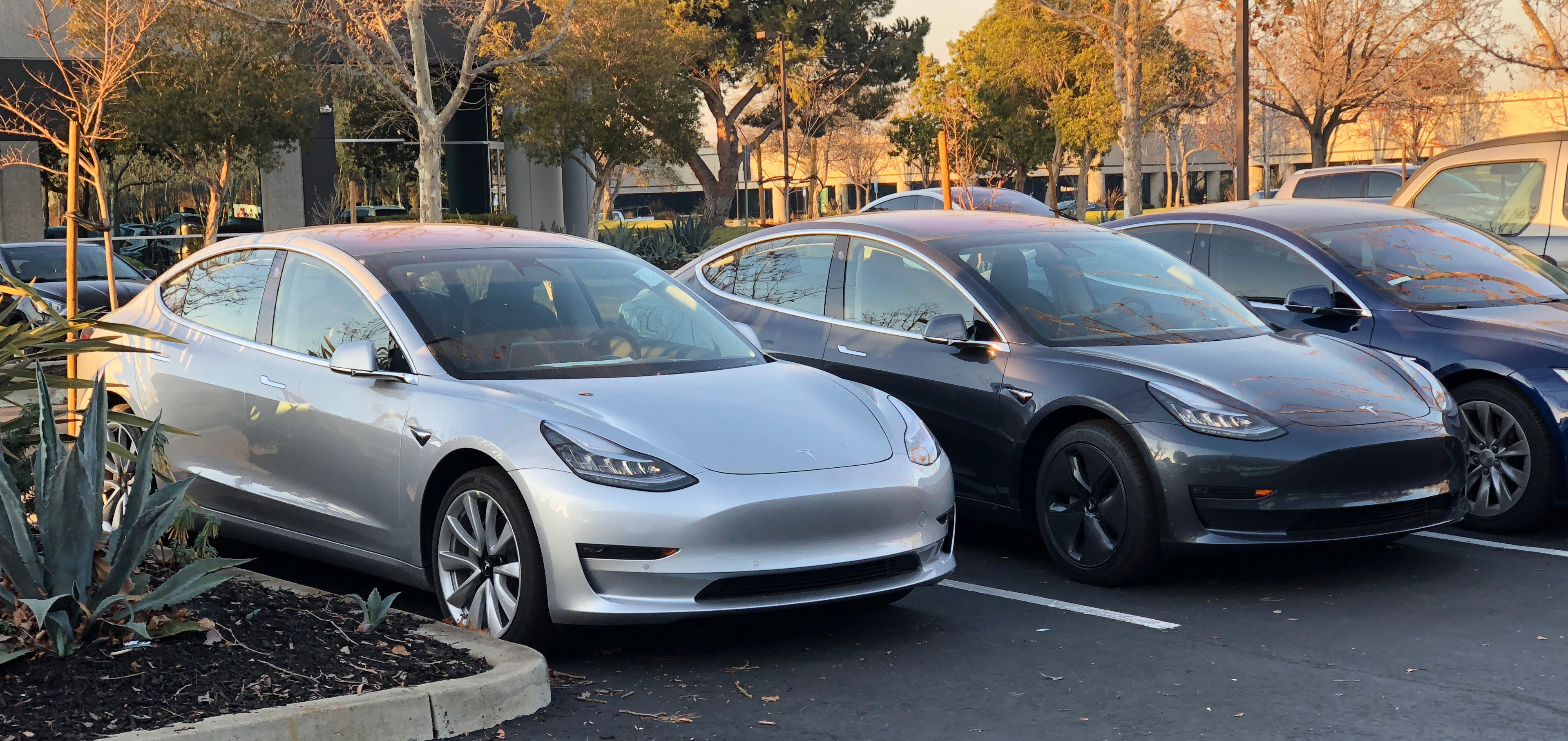 Silver and Midnight Silver Tesla Model 3s parked next to each other